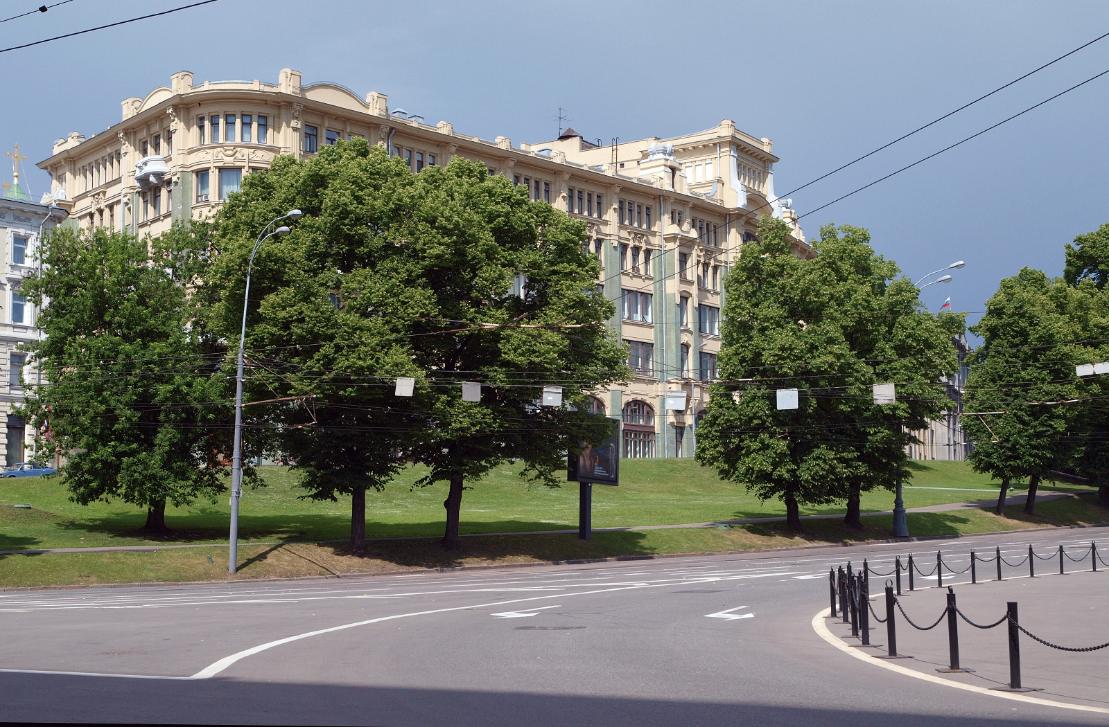 The square known as either Varvarskie Gates, or Slavyanskaya Square, with Staraya Square in background, Moscow.